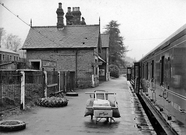 Llanfyllin Station. On a wet day, view SE, towards Llanymynech and Oswestry, with train from Oswestry on right. The station and branch were closed on 18/1/65.